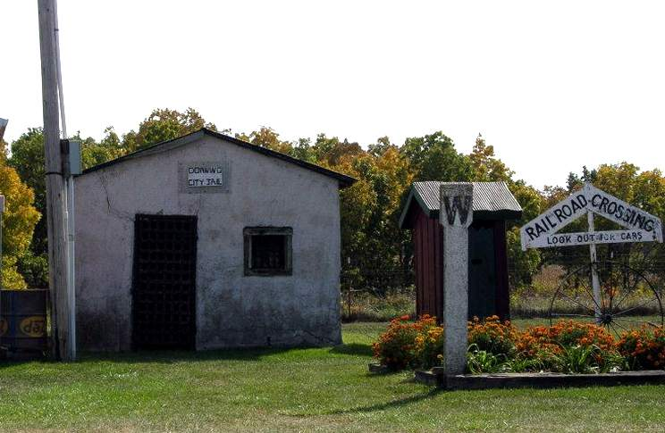 Old city jail in Downing, Missouri. It is no longer in use, but serves as part of a historic exhibit in the city park.